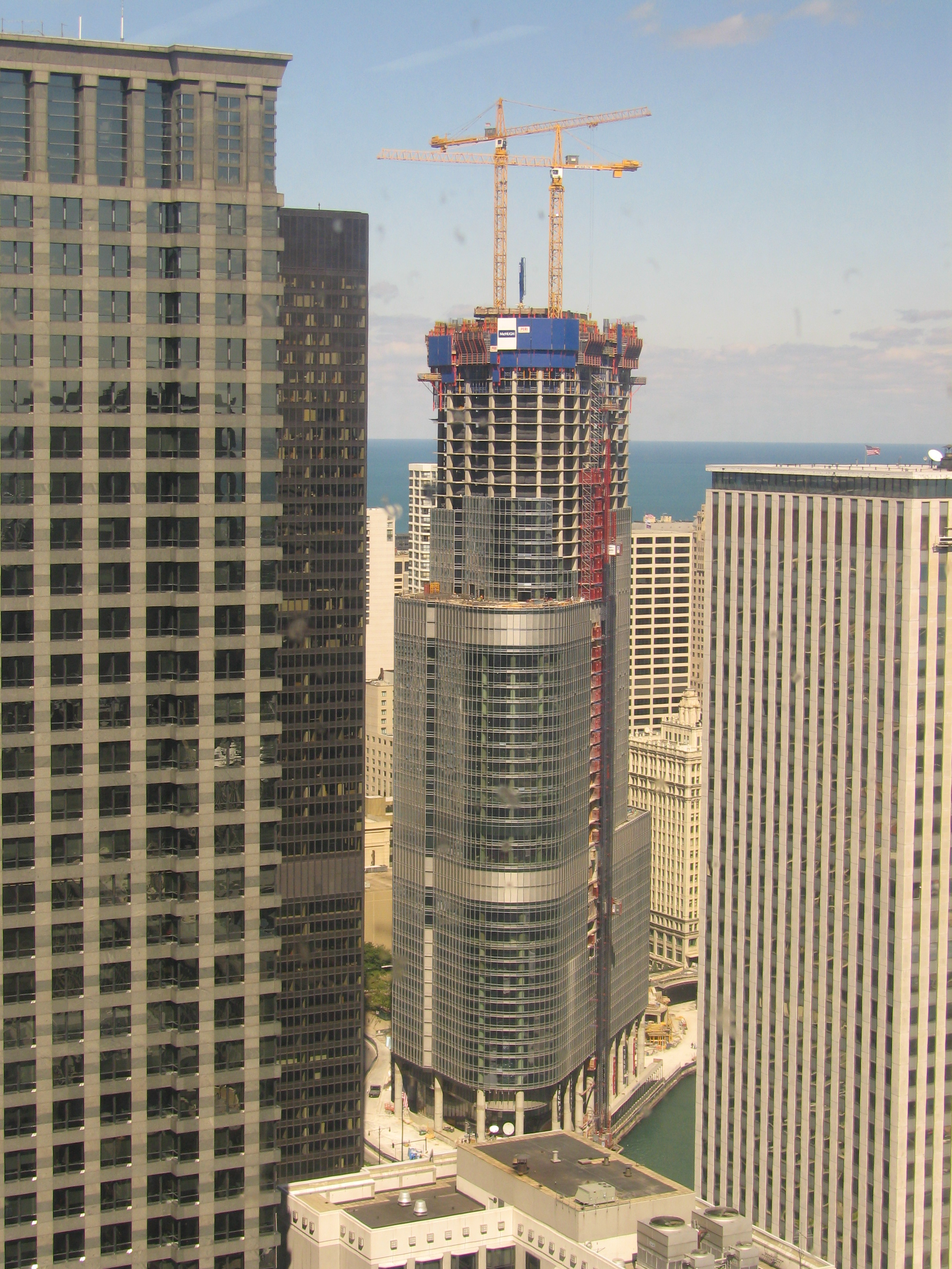 Trump International Hotel and Tower (Chicago) from Daley Center